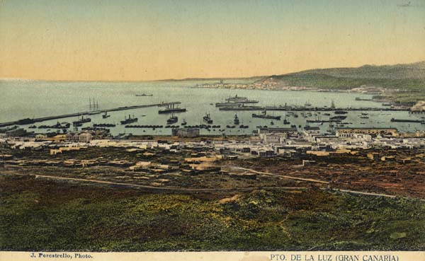 La Luz Bay at 1912. La Luz Harbour, Las Palmas de Gran Canaria (Gran Canaria). Canary Islands, Spain.